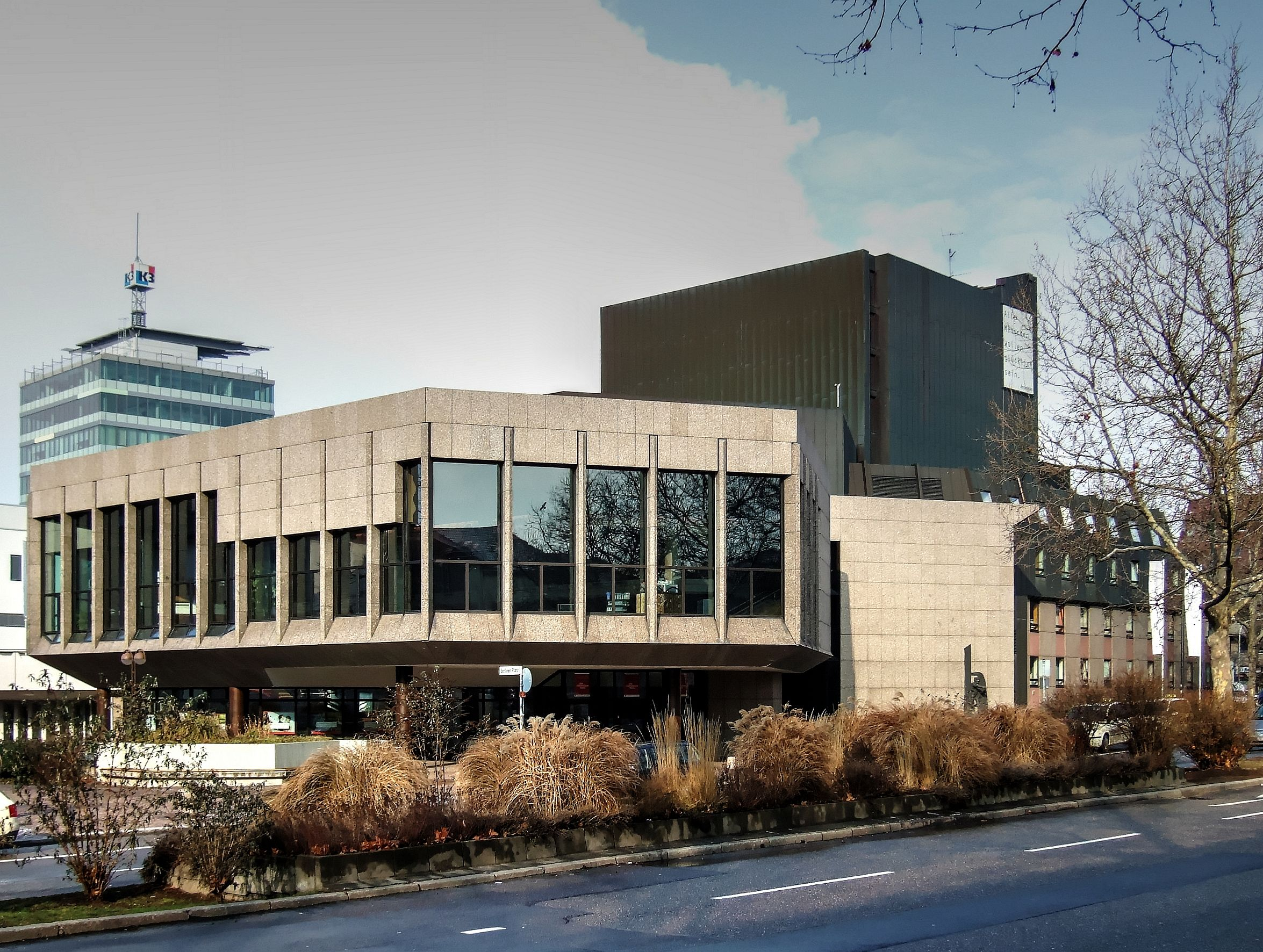 Municipal Theatre Of The City Heilbronn, View from avenue "Allee"